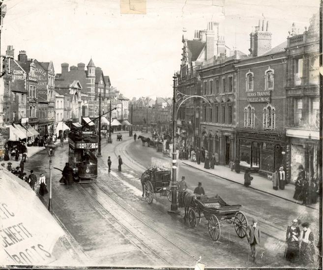 Broad Street, Reading, looking eastwards from an upper storey window, c. 1904. A tramcar heads eastwards, and two horse-drawn cabs wait in the middle of the road, by the trolley-pole. North side: No. 17 (W. and R. Fletcher, butchers); No. 14 (Royal Oak Inn); No. 6 (United Counties Bank). South side: Nos. 116 and 117 (Fergusons Ltd., Angel Brewery and Wine and Spirit Stores); Nos. 114 and 115 (Berkshire Training College of Music on the upper floors). 1900-1909.